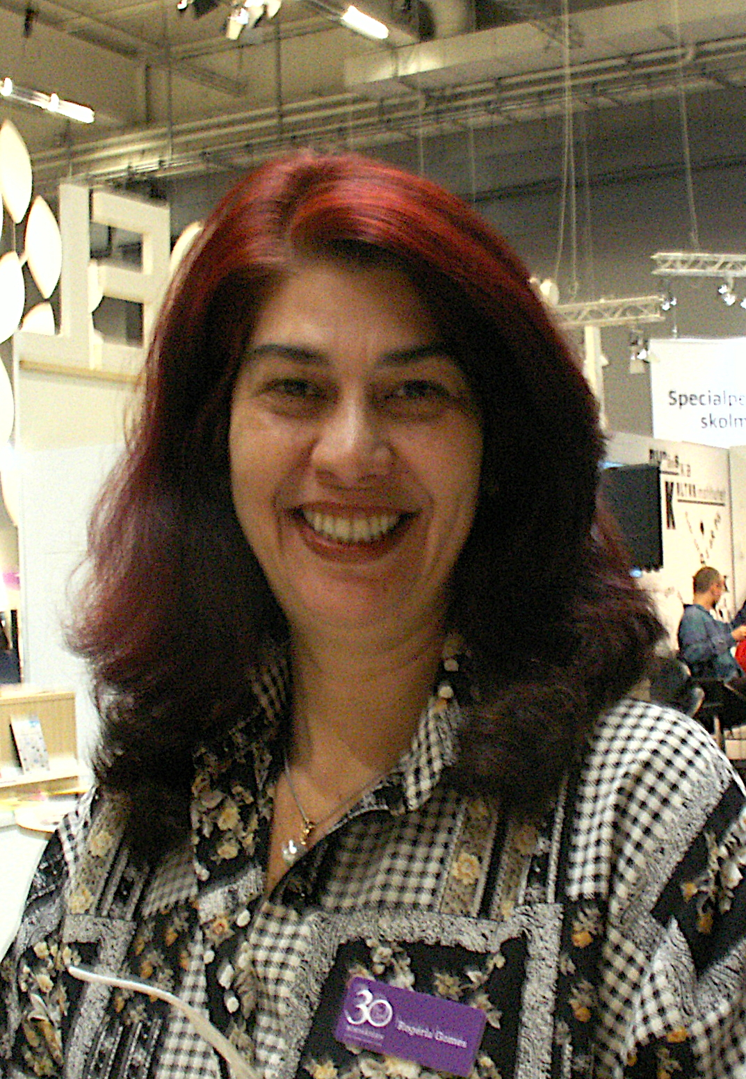 At the Göteborg Book Fair 2014.